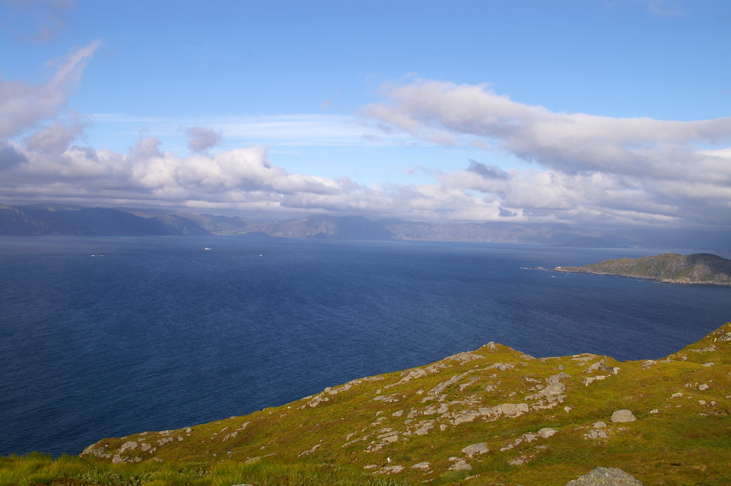 Sildegapet seen from Vågsøy, Sogn og Fjordane, Norway